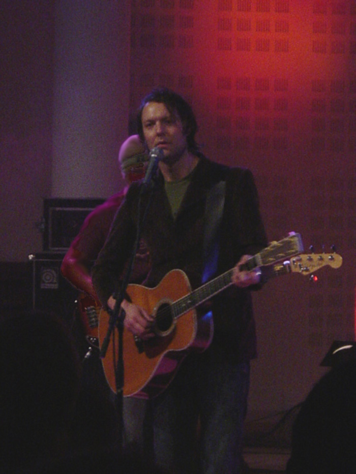 Reuben Morgan - Music pastor at Hillsong Church Australia. Photo taken in Ålesund, Norway, in year 2004 or 2005.